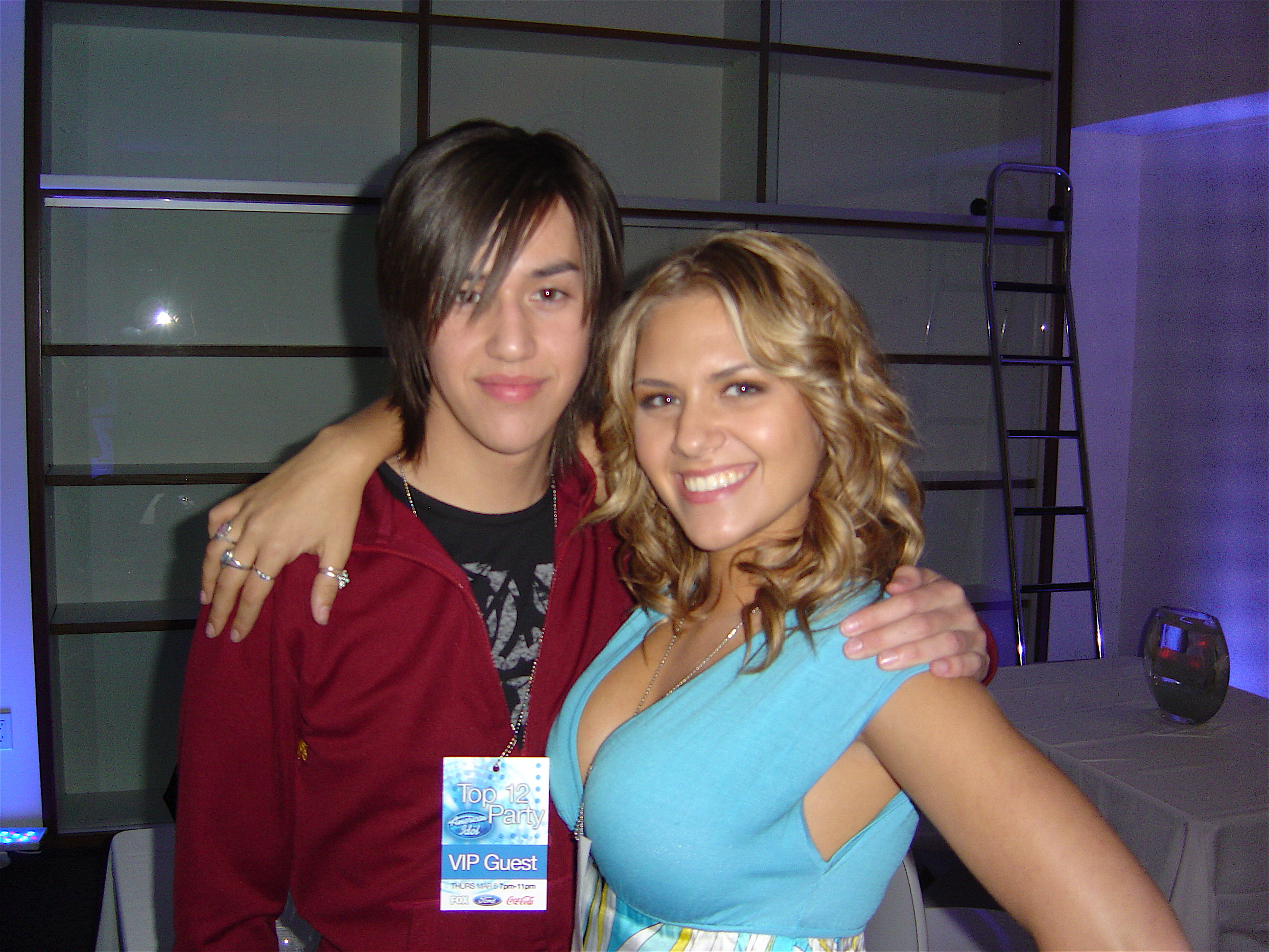 Danny Noriega and Kady Malloy at the American Idol, Season 7, Top 12 after party